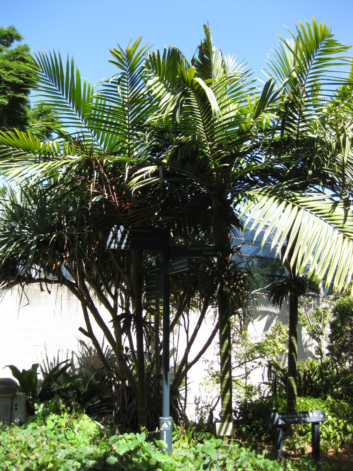 Burretiokentia hapala. Photographed at the Royal Botanic Gardens Sydney (Australia) in December